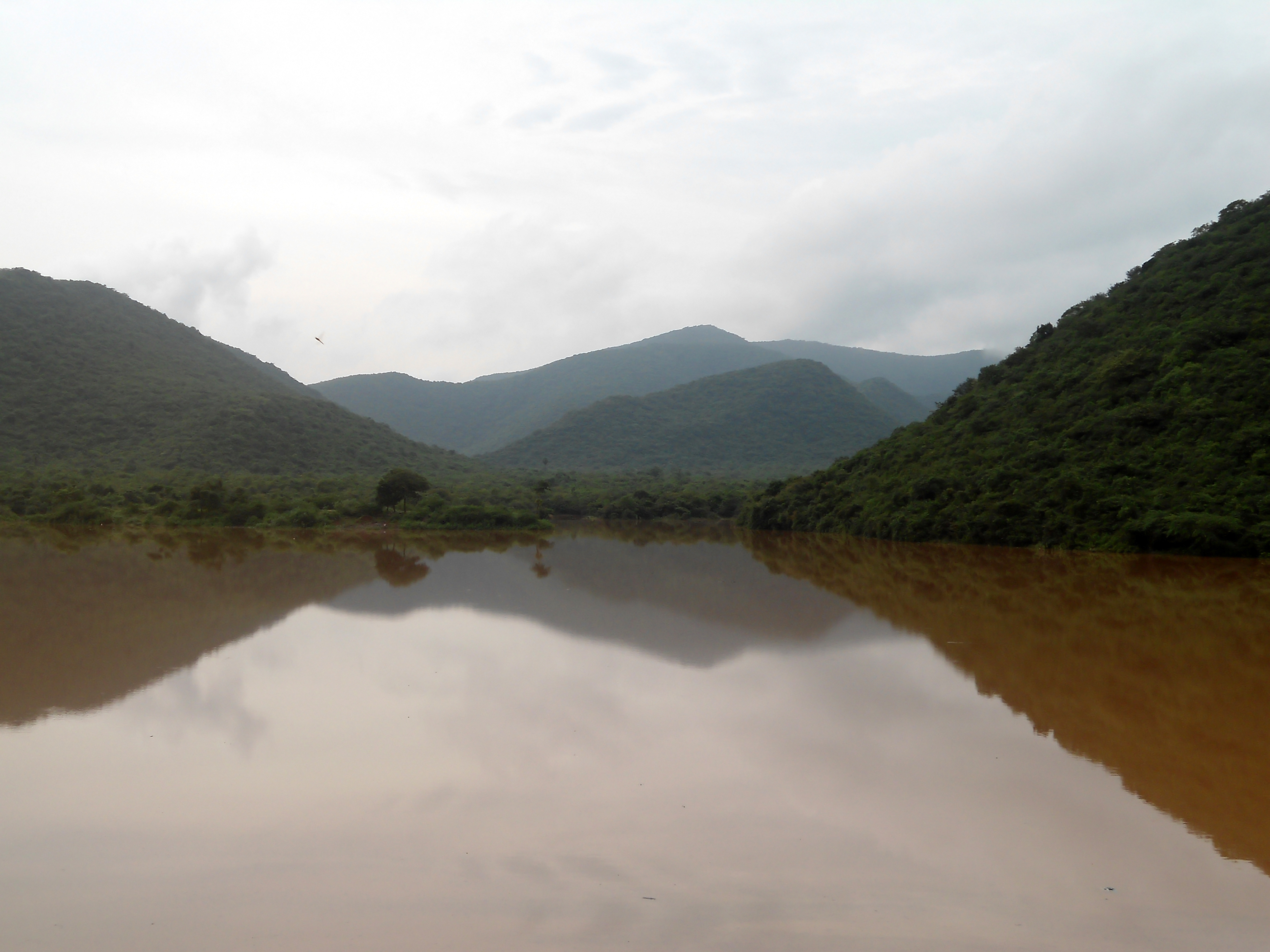 Eastern Ghats view near Bakkannapalem reservoir, Madhurawada, Visakhapatnam